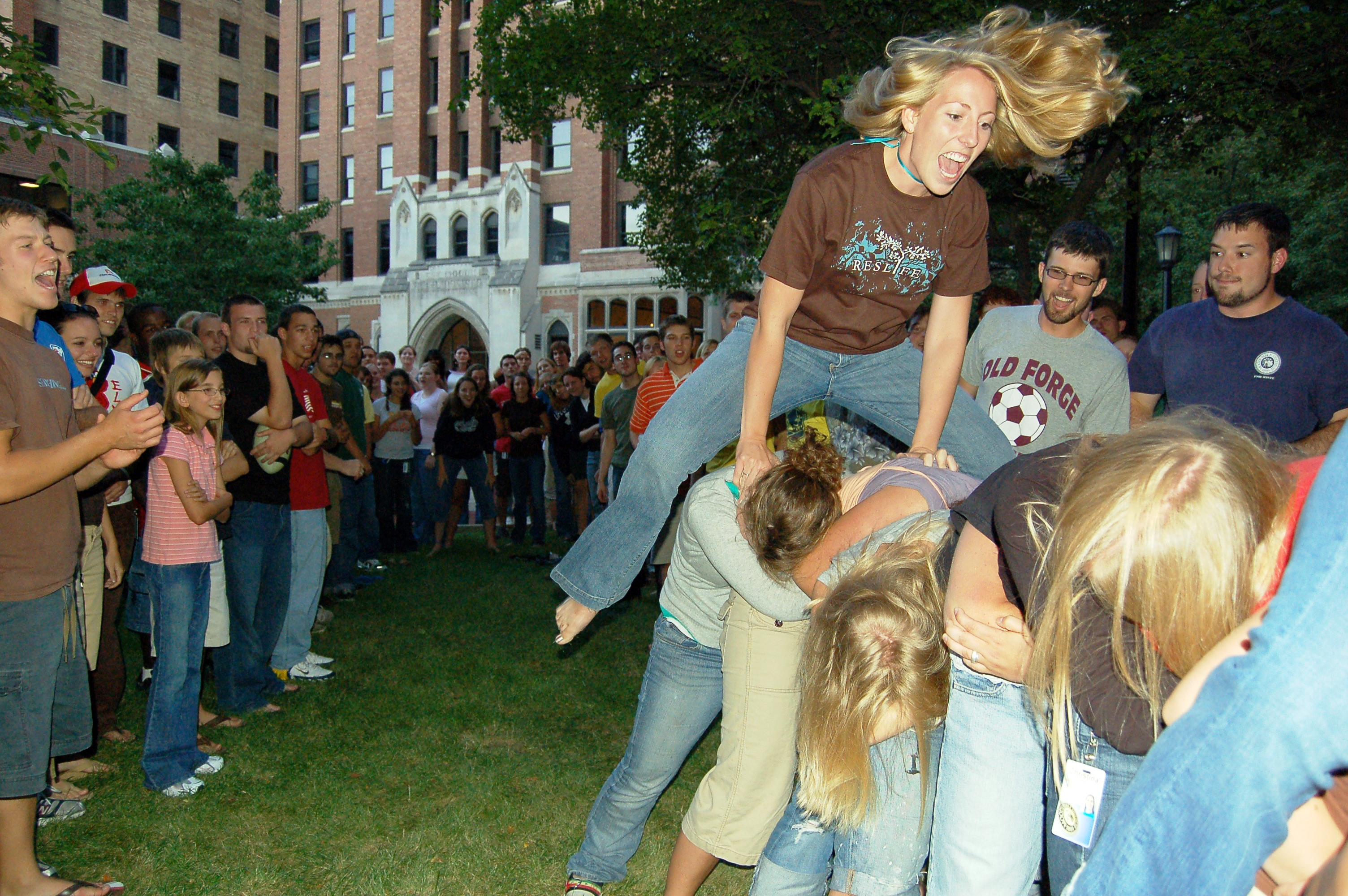 Students of Moody Bible Institute play the traditional game of "Buck Buck" after the annual vespers service on the Sunday prior to the start of classes while Russ Shumaker casually observes from the sidelines. Moody Bible Institute, Chicago, IL, 2006.